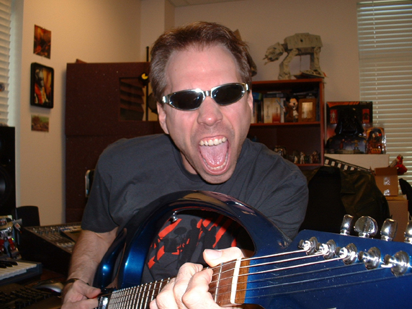 Frank Klepacki working in the studio of Petroglyph Games